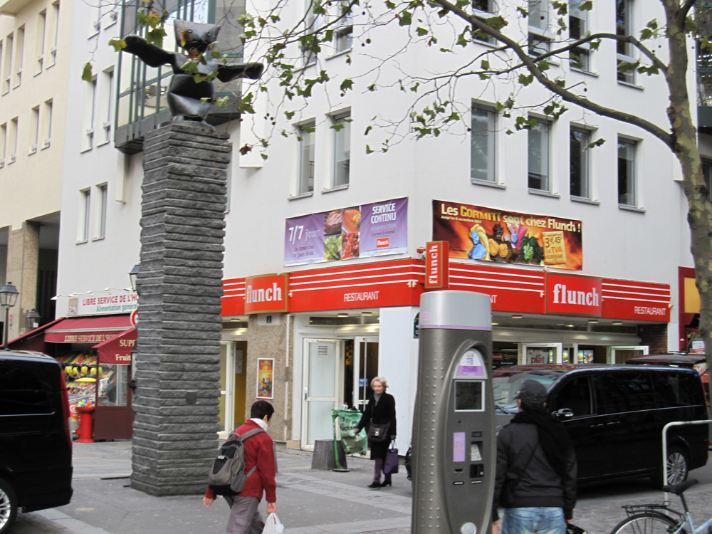 Flunch restaurants in Paris